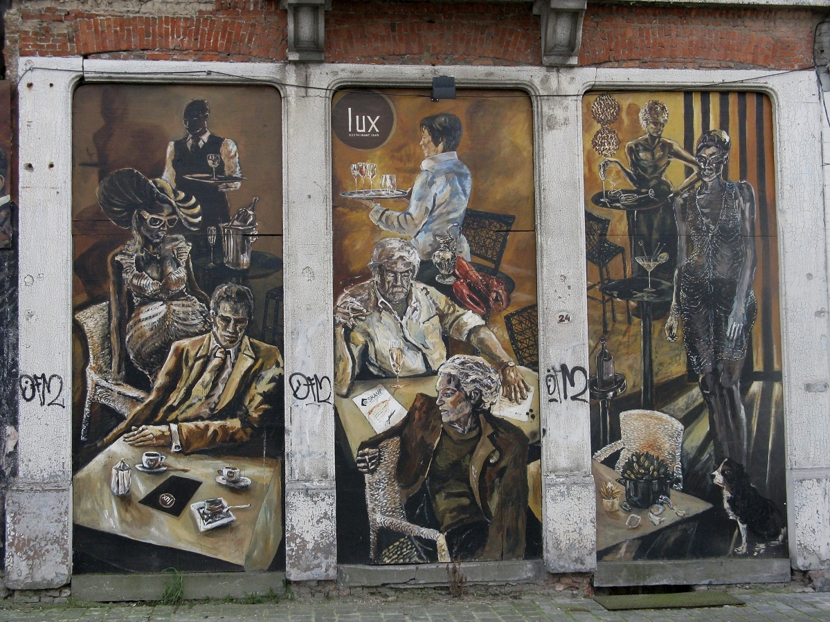 Street Mural